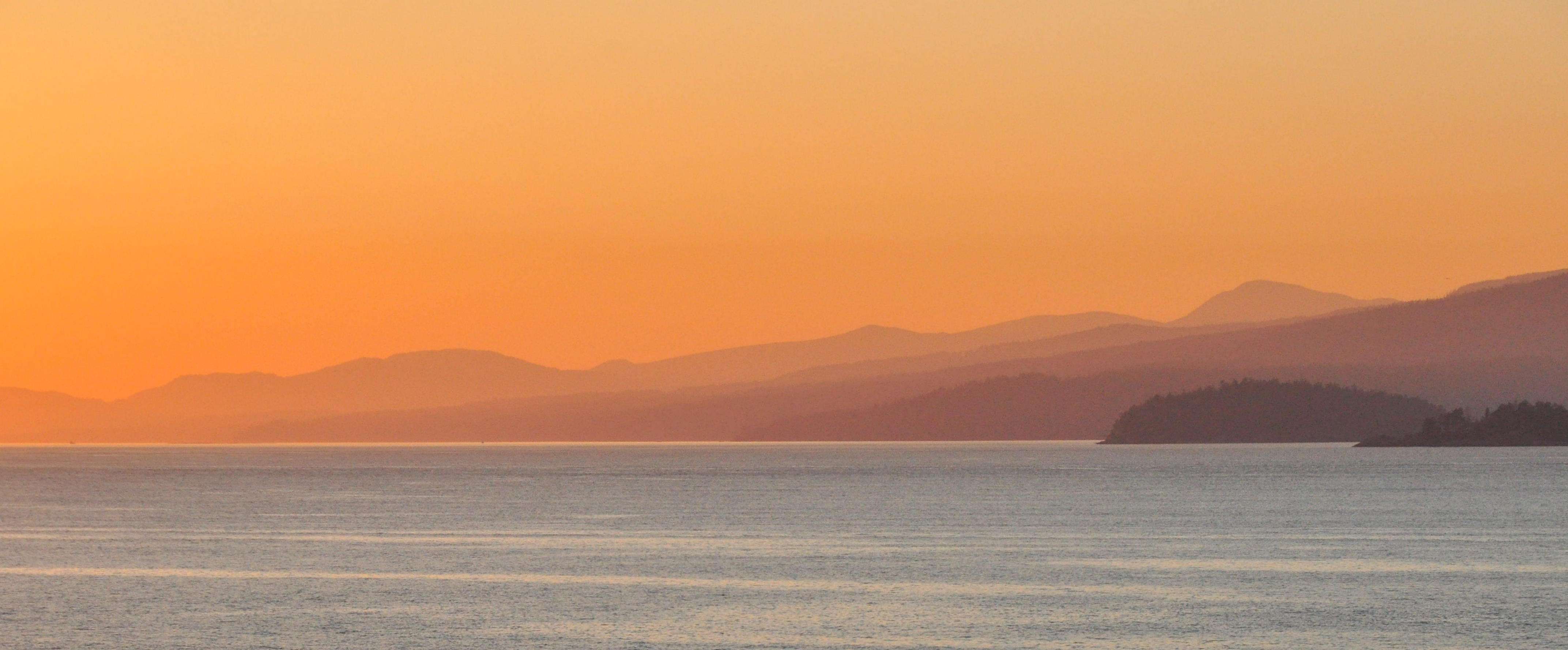 Sunset on the Strait of Georgia, British Columbia, Canada